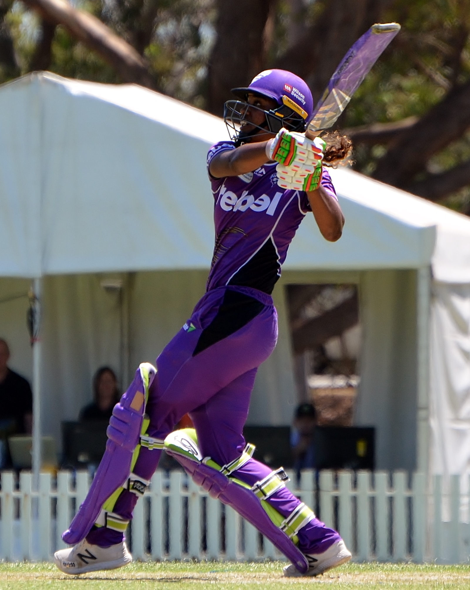 Hobart Hurricanes all-rounder Hayley Matthews batting against the Perth Scorchers, in a WBBL match at Lilac Hill Park in Perth